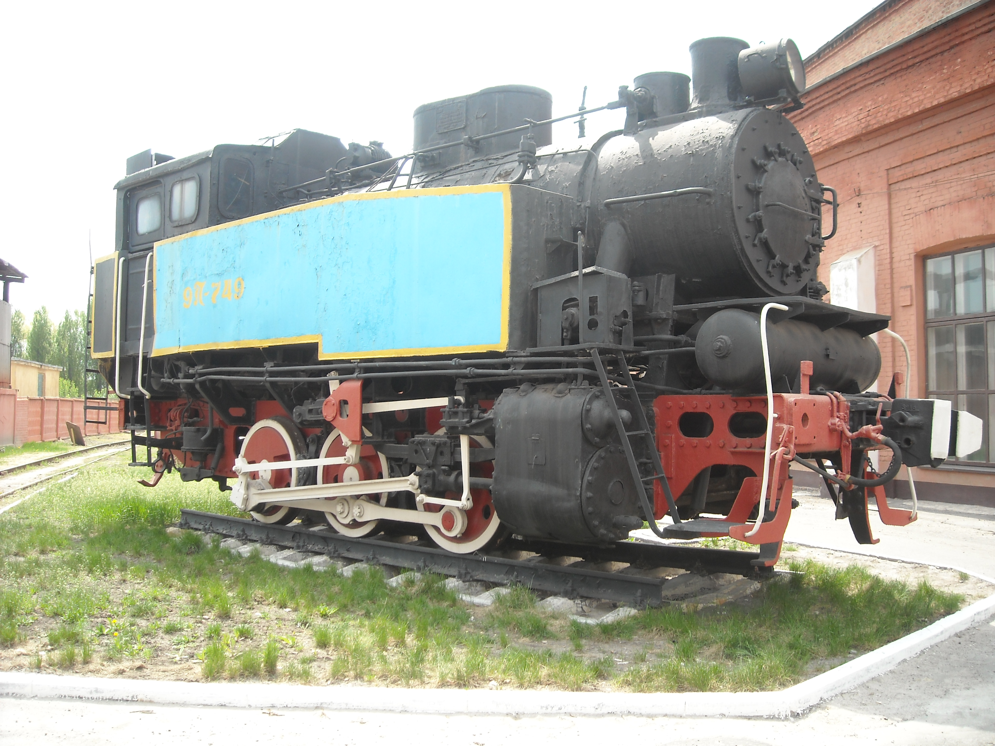 Transport in Kharkov. Steam locomotive ... Харьков. Основа. Депо. Паровоз памятник 9П-749,.